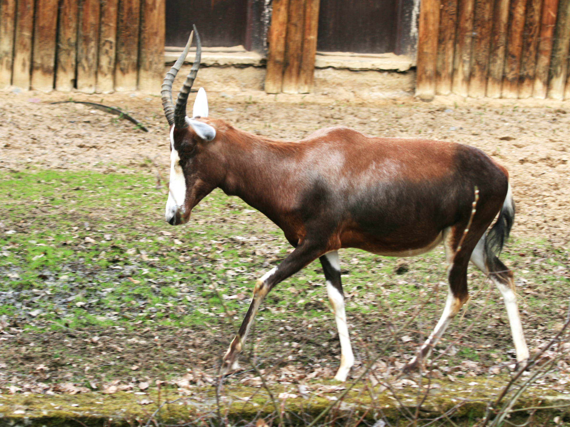 Blesbuck, Damaliscus pygargus phillipsi in ZOO Dvůr Králové, Czech Republic